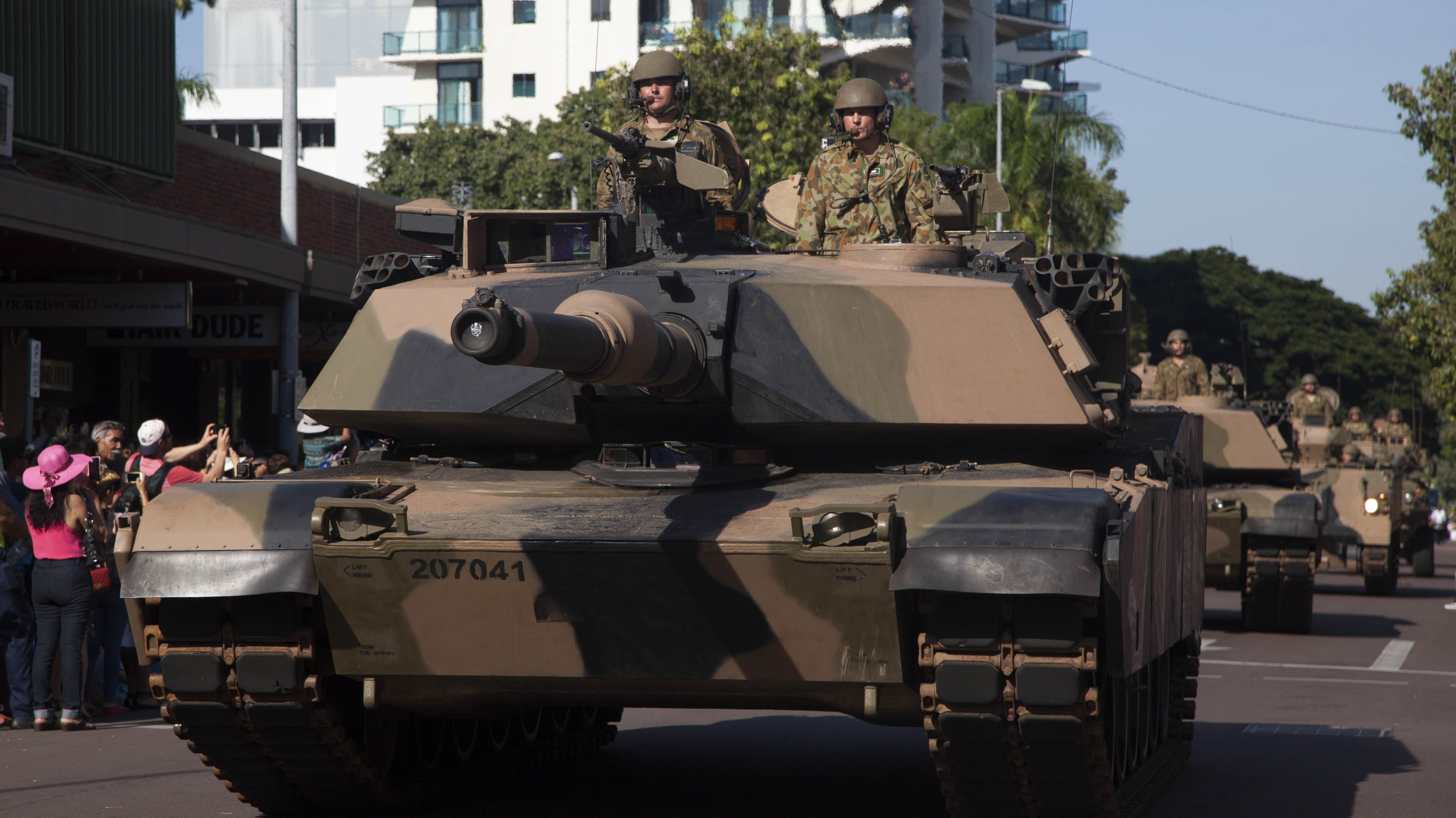 Australian Army armoured vehicles with the Australian Army drive down a street during the ANZAC Day Parade April 25 in Darwin, Northern Territory